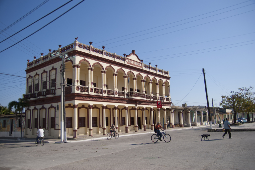 City Hall of Ranchuelo, Cuba